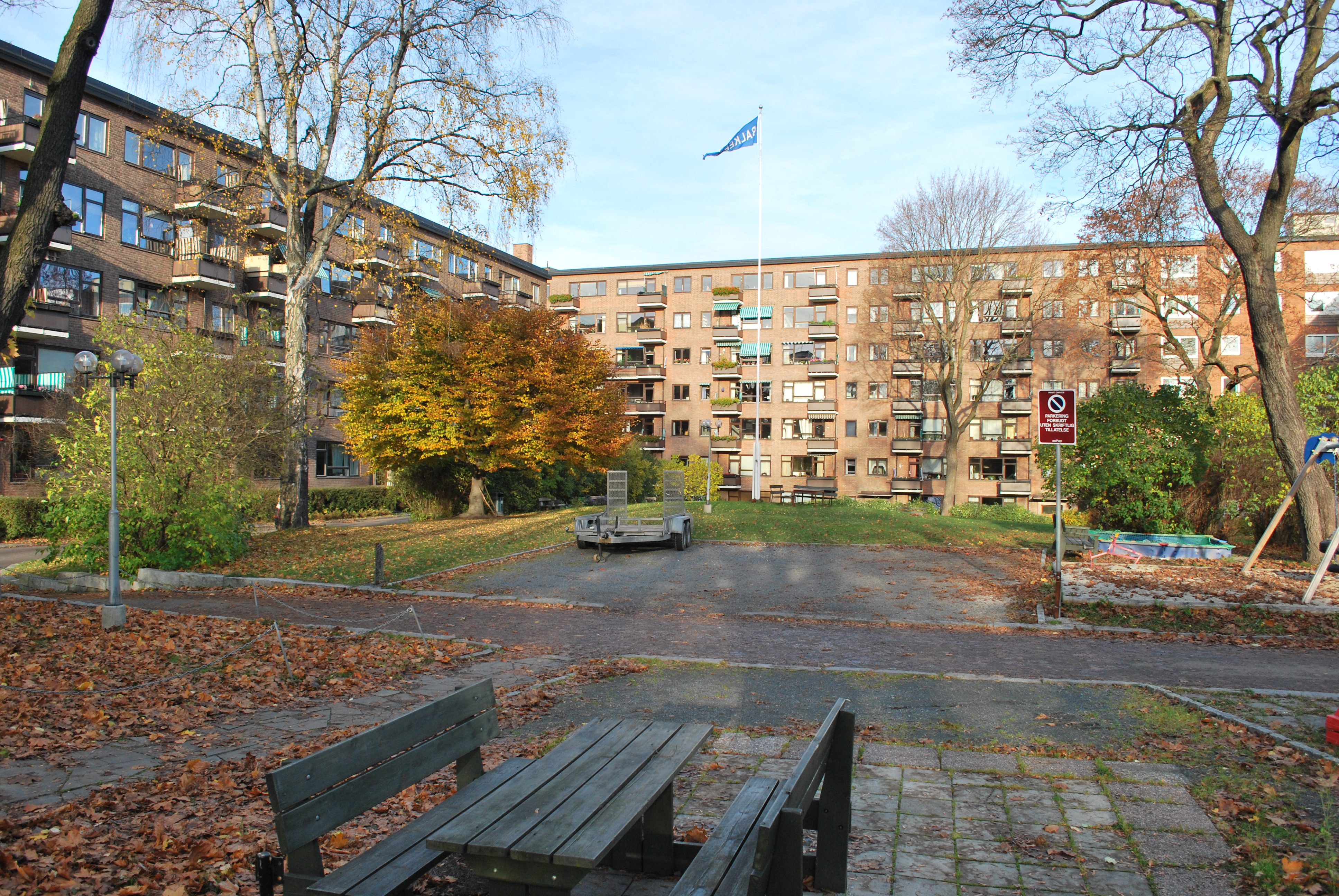 "Balkeby" housing complex, built 1938 by OBOS, Majorstuen, Oslo